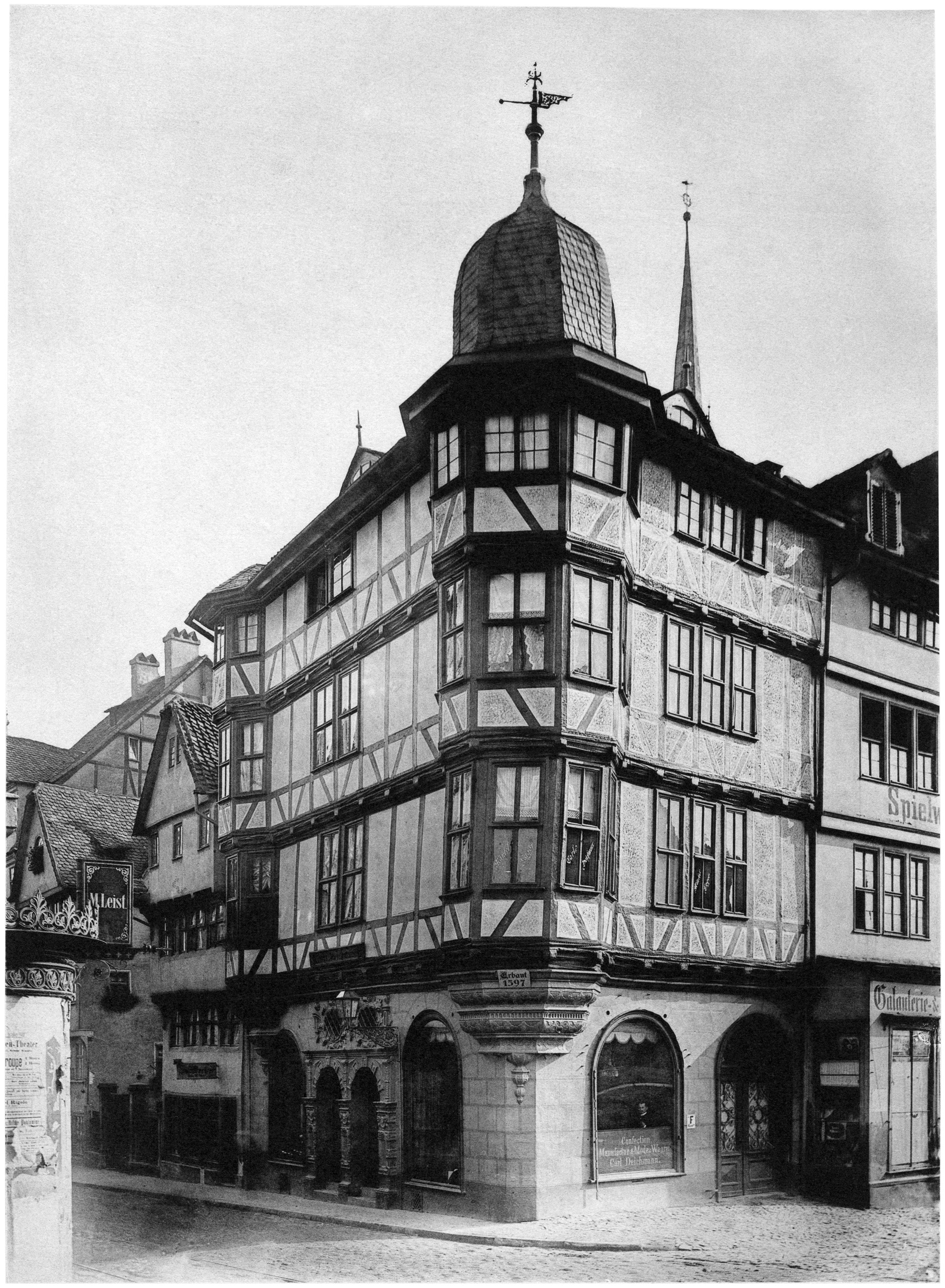 Table 39 / Title on the table: Cassel Altmarkt (Old Market) No. 2 1597. / Index title: Cassel. Altmarkt (Old Market) No. 2 (1597). / Comment: destroyed in 1943